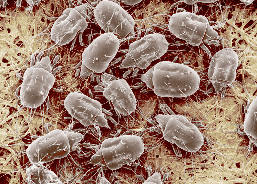 The Cheese Mite (Tyrophagus putrescentiae) is common on plant leaves, stored grain and animal feed. Magnified 400X.